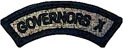 Digital painting of the Iowa National Guard Governor's Ten Tab